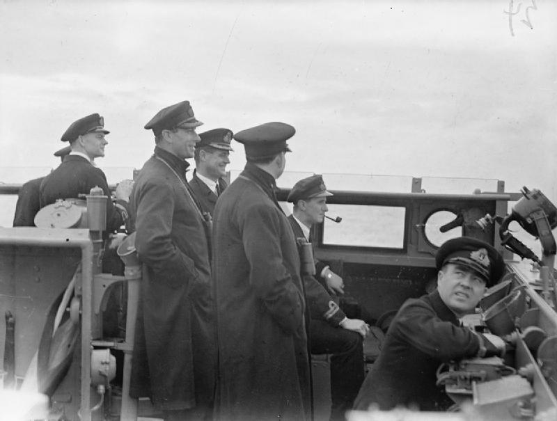 Admiral of the Fleet Earl Mountbatten of Burma Destroyer Captain: Captain Lord Louis Mountbatten with other officers on the bridge of HMS KELVIN.